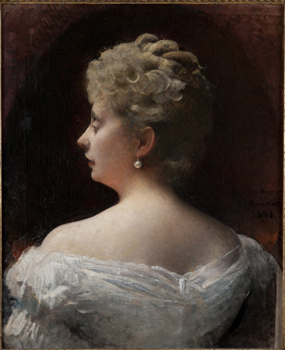 Louise Cahen d’Anvers (1845-1926), née Morpurgo